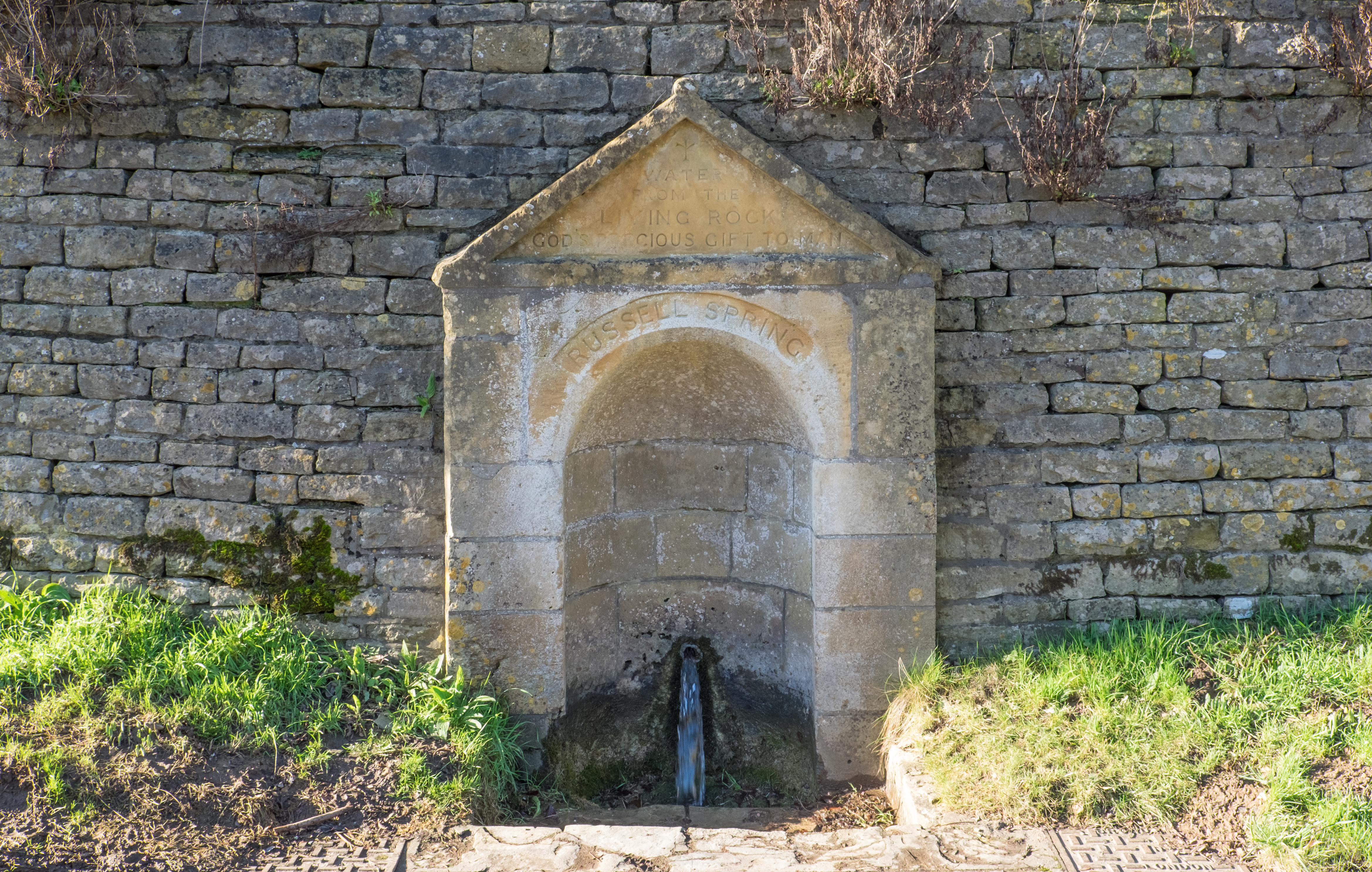 Russell Spring in Blockley, Gloucestershire. This 19th century roadside spring was a main source of clean water for the village into the 20th century. The spring was donated to the village by Mrs. William (Lucy) Russell. The later inscription reads: "Water from the living rock God's precious gift to man". The spring is part of a structure that is a Grade II Listed Building in England.